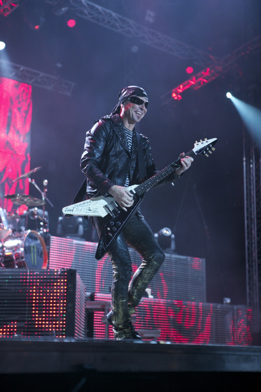 Rudolf Schnker In Sofia 2010